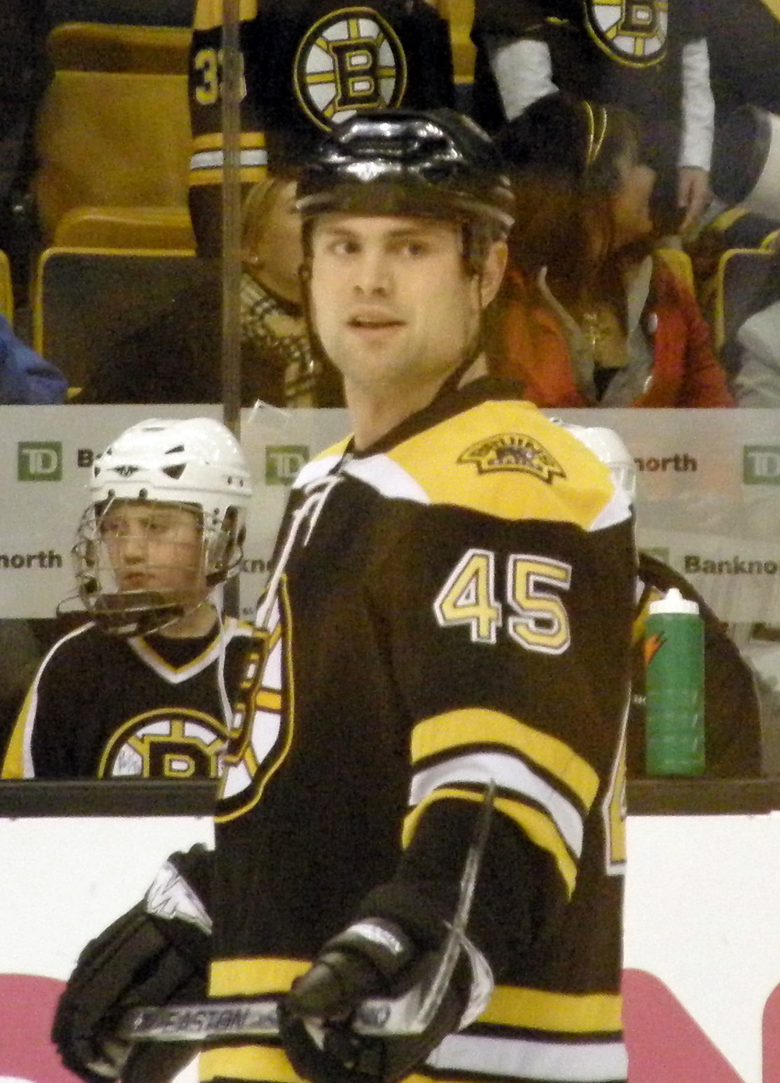 #45 Mark Stuart (D) detail of this larger photo